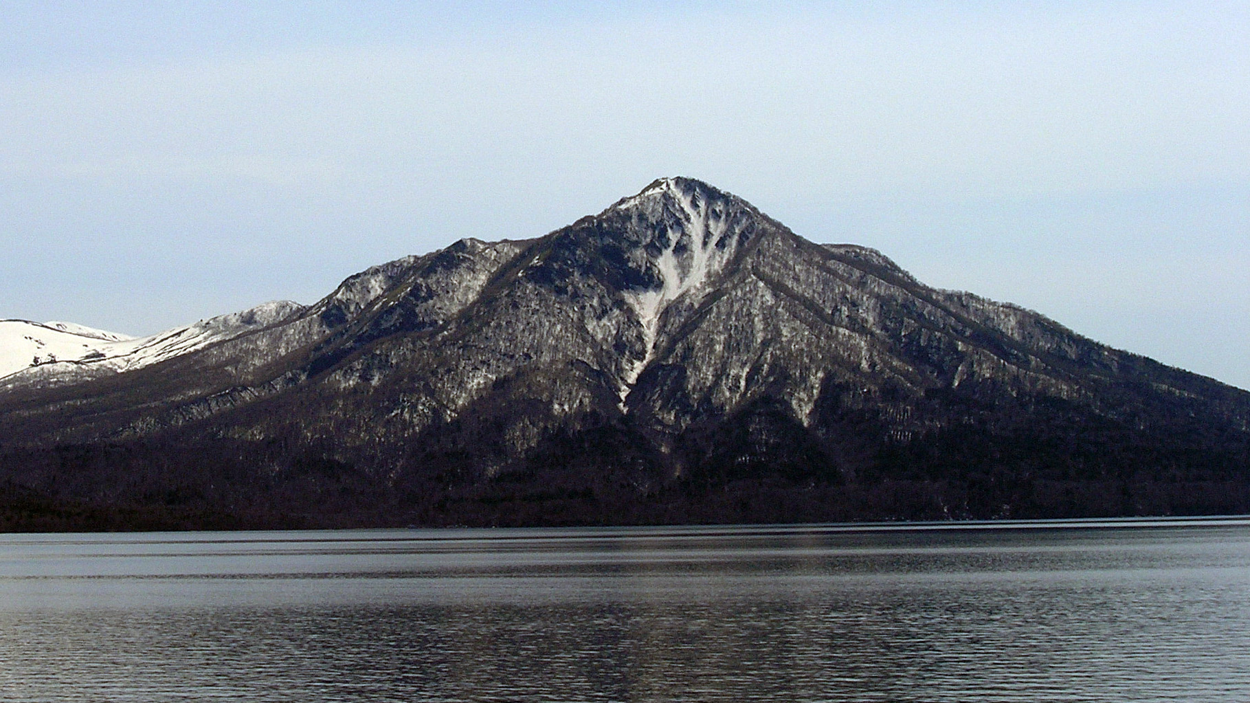 Mount Fuppushi with Lake Shikotsu seen from the NNE.